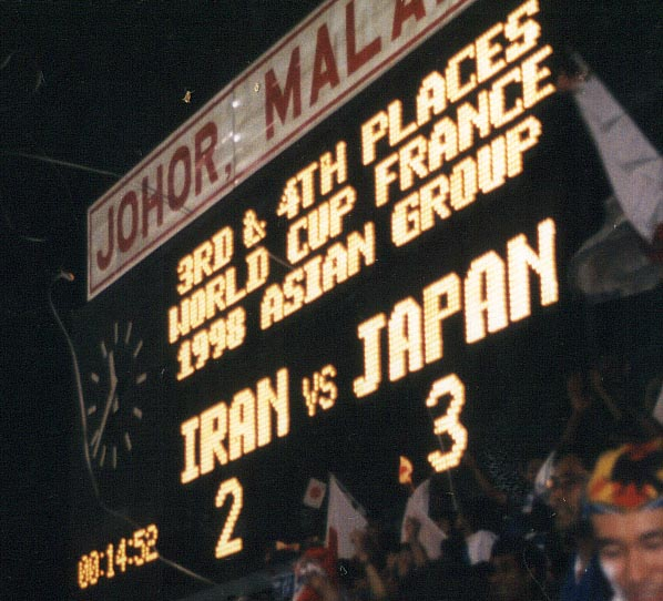 The score board of the FIFA World Cup 1998 qualification game: Asia 3rd Playoff match, Japan vs Iran. November 16, 1997 at Johor Bahru, Malaysia. Photo taken by Fk.